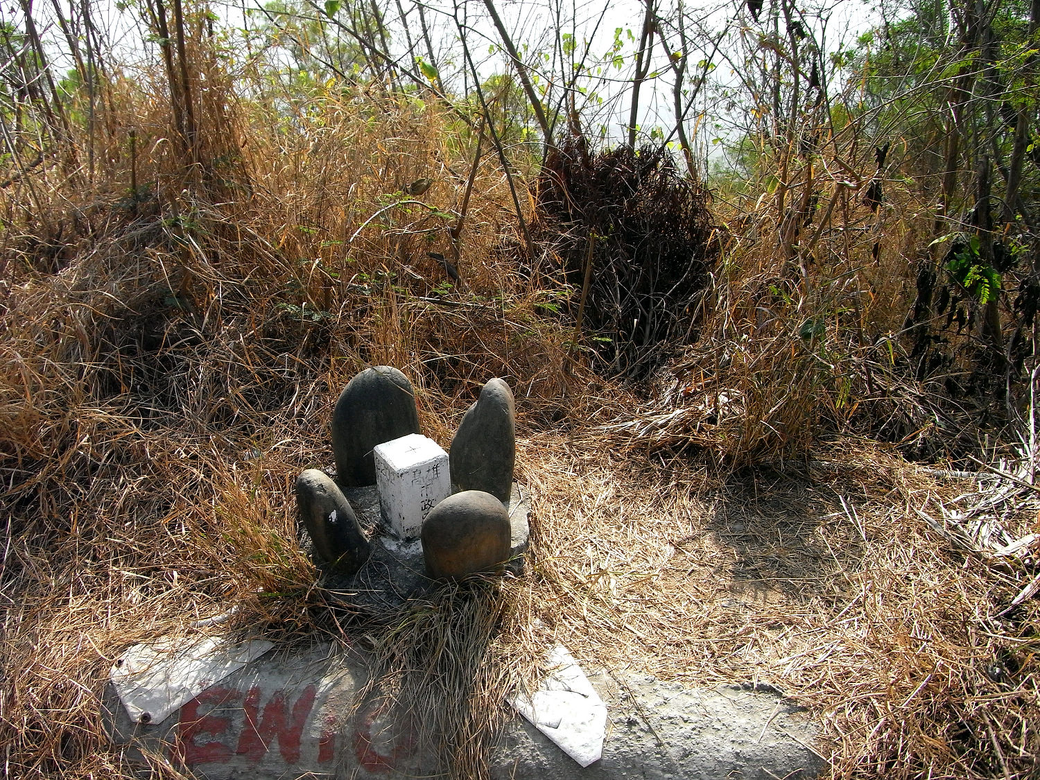 Top of Mt. Ban Ping, Kaohsiung, Taiwan